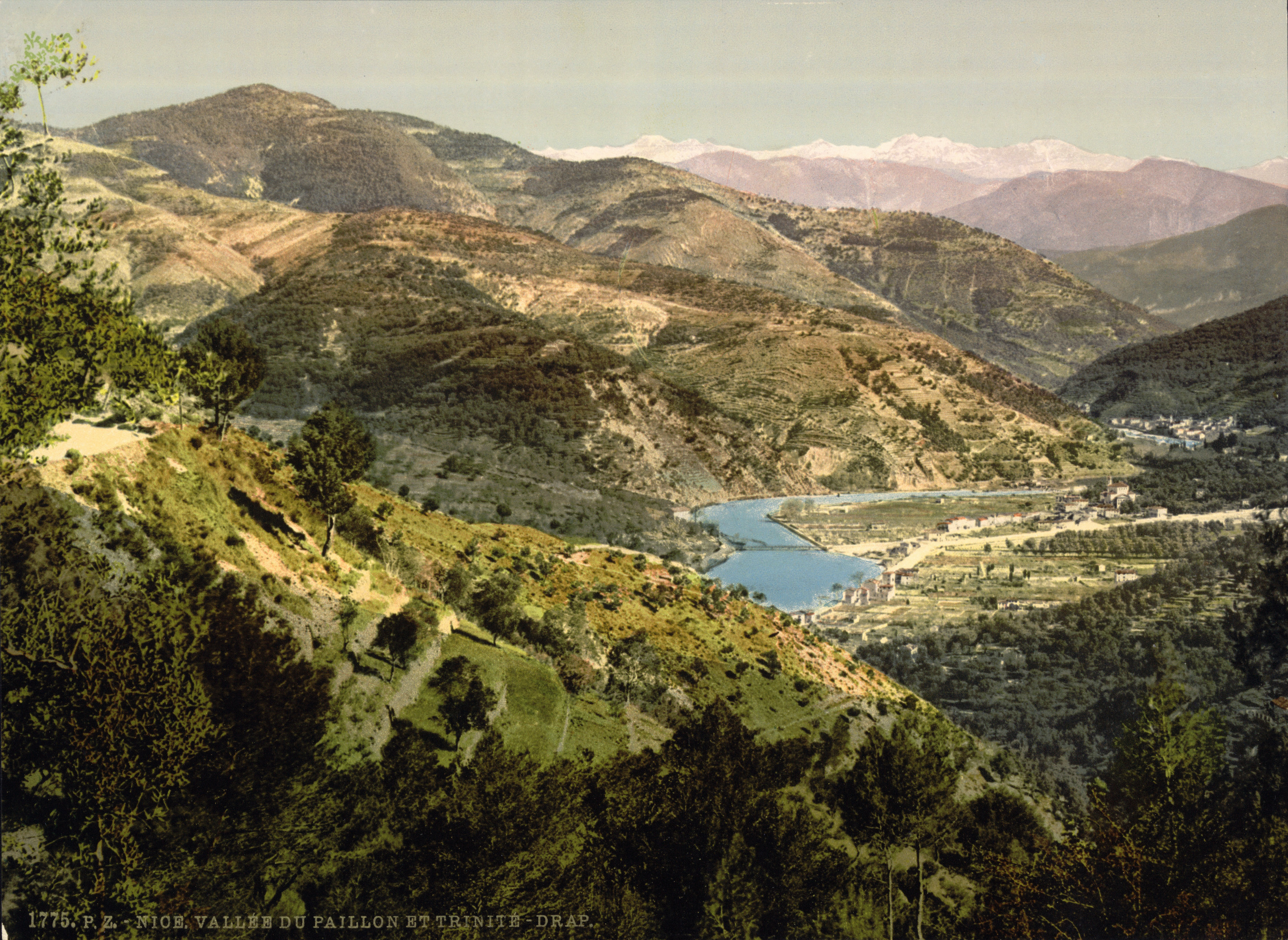 La vallée du Paillon in Nice. Print no. "1775"